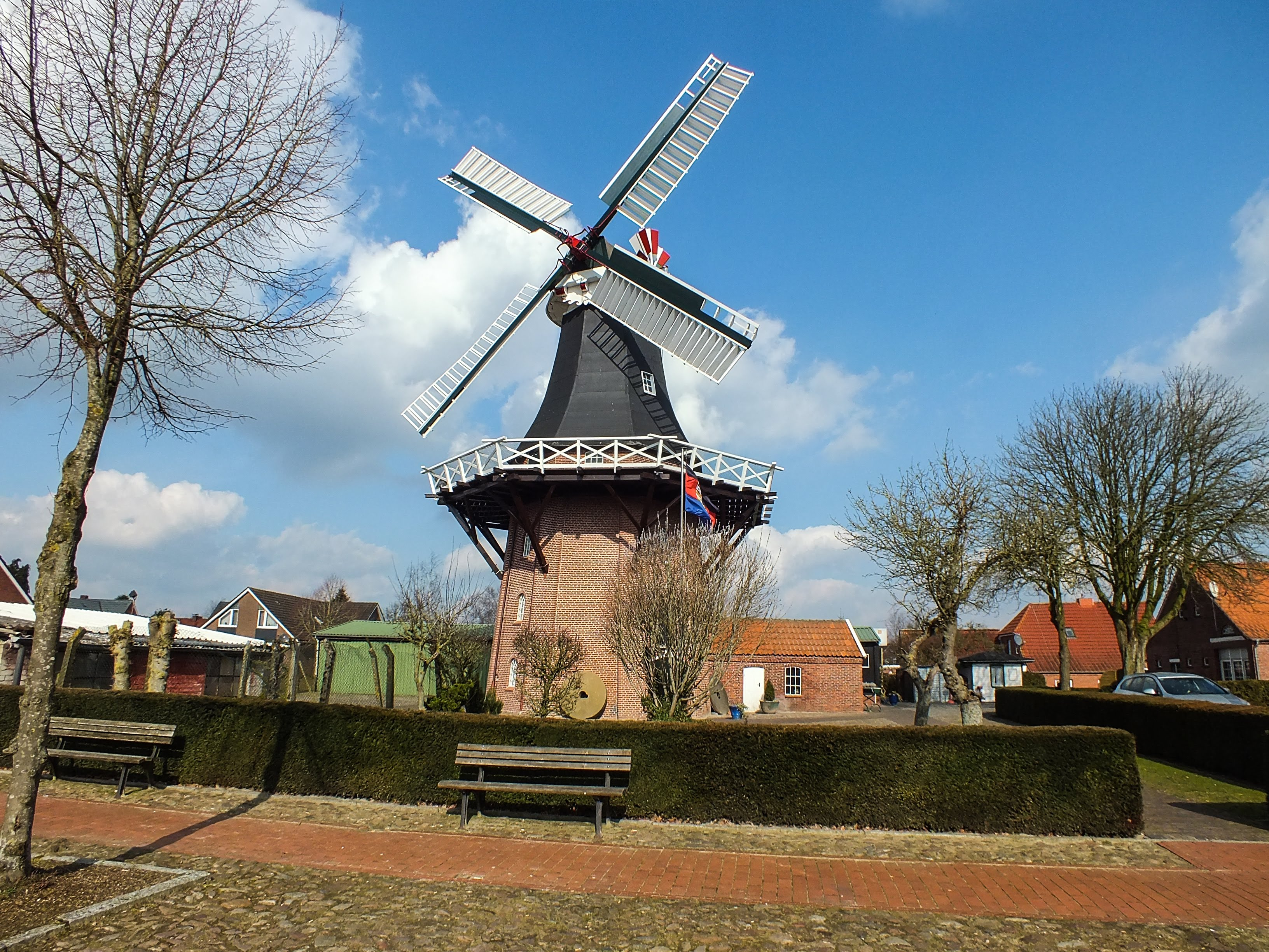 Mühle in Stapelmoor